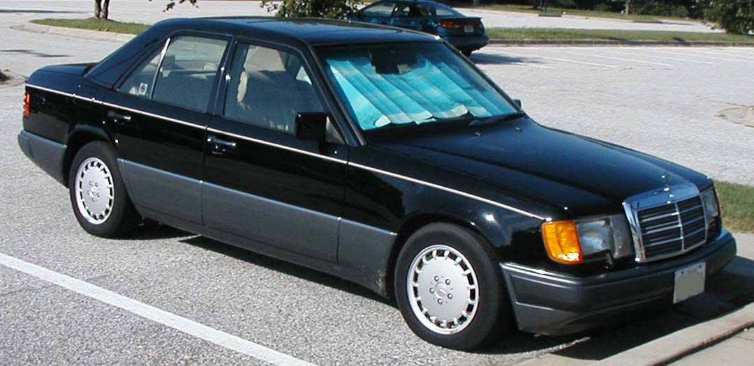 1989-1993 Mercedes-Benz W124 photographed in USA.